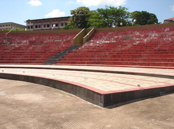 NITC